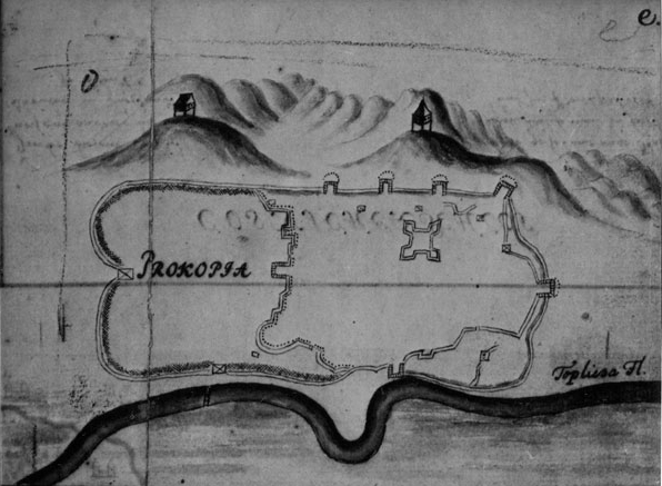 Old austrian plan of Prokuplje Fortress (Hisar) in Prokuplje city, Serbia.